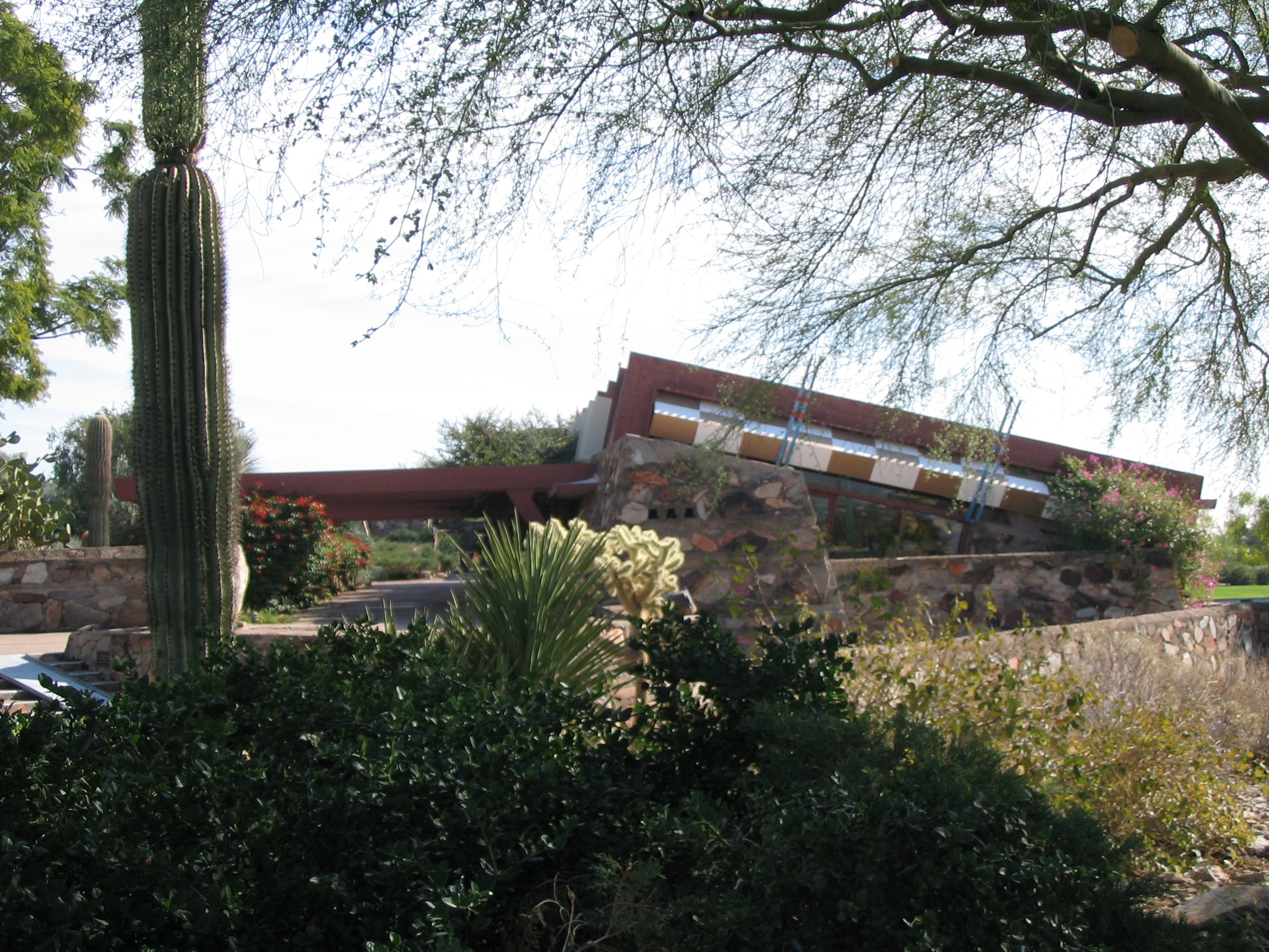 Picture of the Frank Lloyd Write house Taliesin West in Arizona.